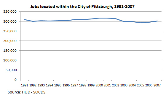 Jobs located within the City of Pittsburgh, 1991-2007